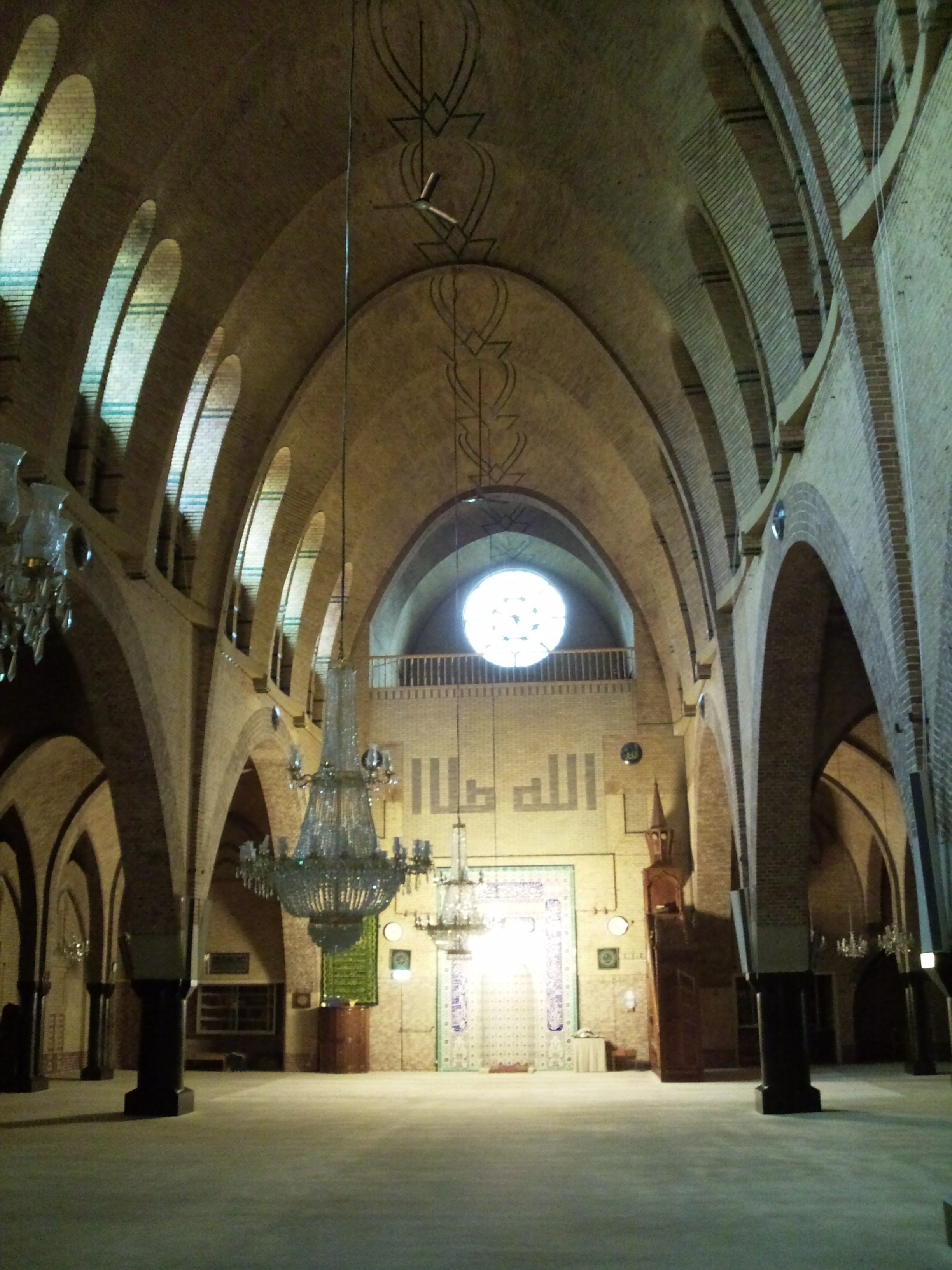 Interior of the Fatih mosque, Amsterdam, the Netherlands.